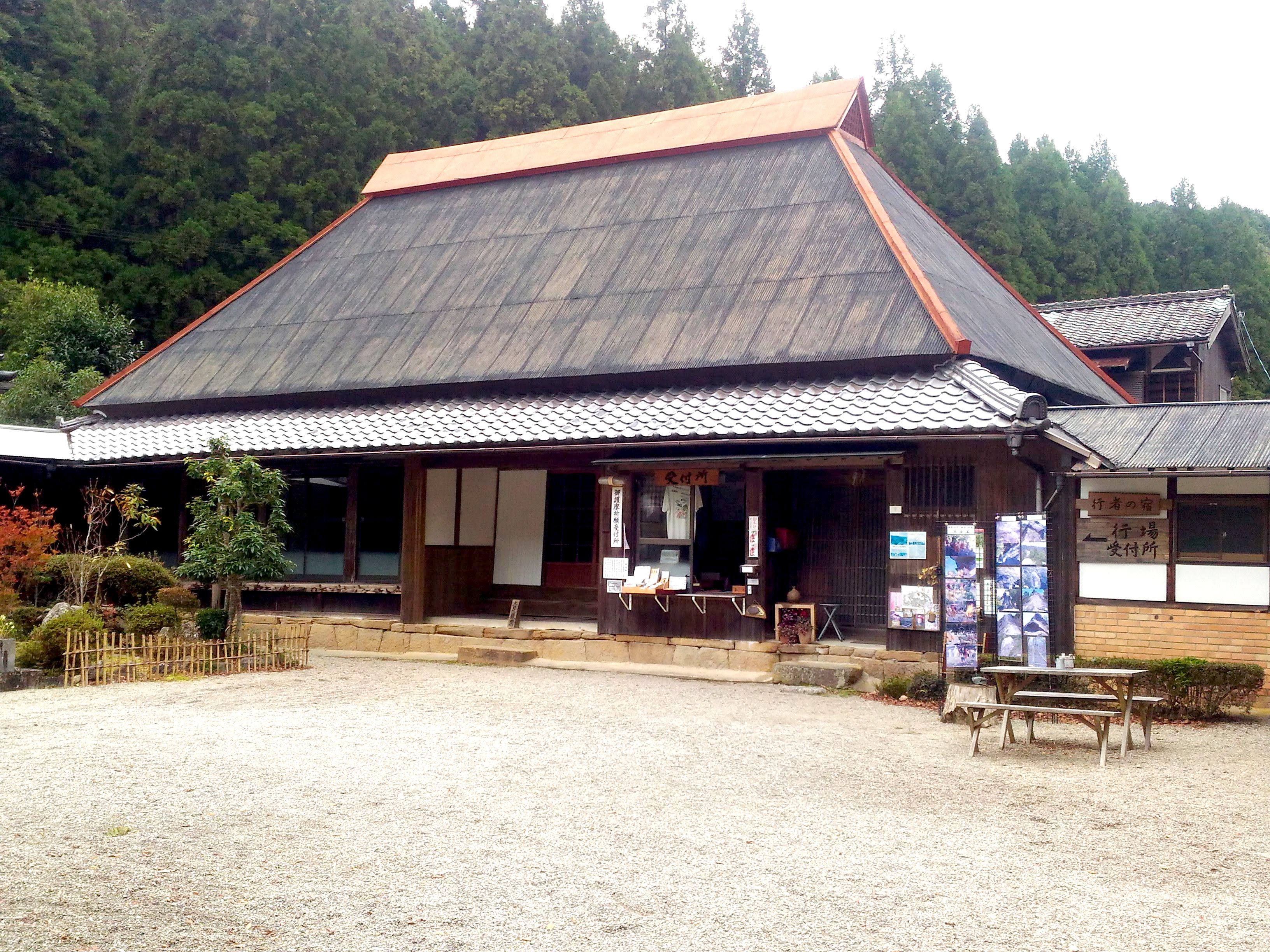 The priests' living quarters,Ibuta-ji,Mie prefecture,Japan